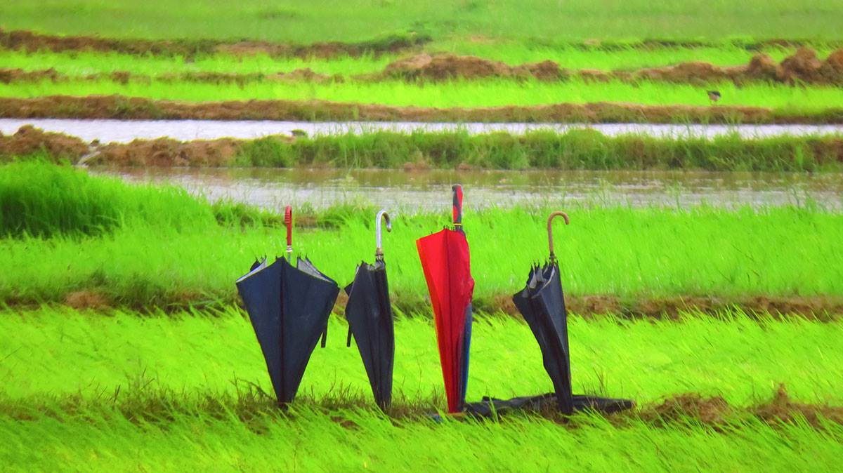 farms of India, Jharkhand near Ranchi